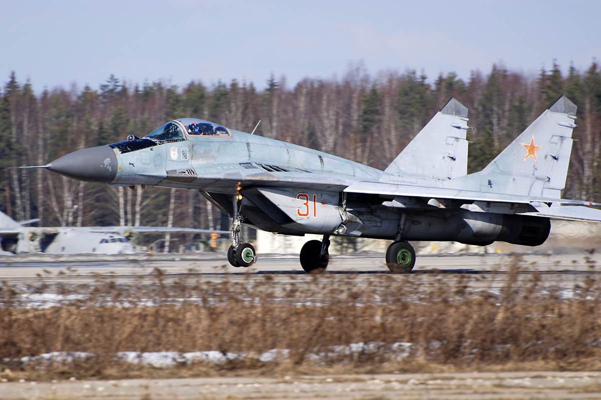 Russia - Air Force Mikoyan-Gurevich MiG-29 (9-13) 31 red